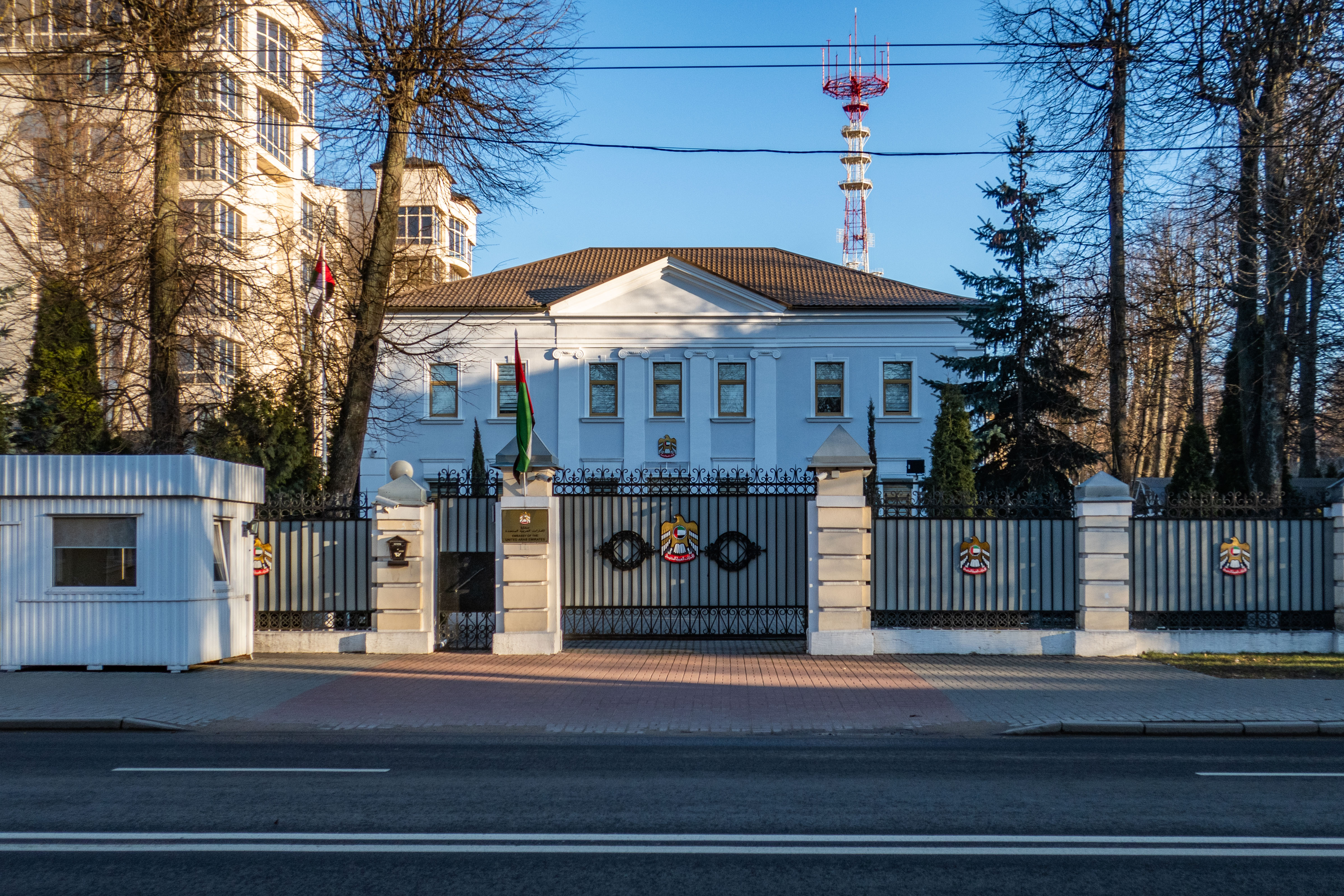 Embassy of the United Arab Emirates in Belarus. Minsk, Belarus